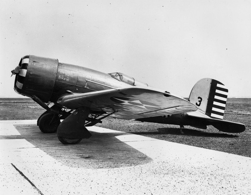 PictionID:42765966 - Title:Lockheed Y1C-23 - Catalog:17_000184 - Filename:17_000184.tif - --------Image from the René Francillon Photo Archive. Having had his interest in aviation sparked by being at the receiving end of B-24s bombing occupied France when he was 7-yr old, René Francillon turned aviation into both his vocation and avocation. Most of his professional career was in the United States, working for major aircraft manufacturers and airport planning/design companies. All along, he kept developing a second career as an aviation historian, an activity that led him to author more than 50 books and 400 articles published in the United States, the United Kingdom, France, and elsewhere. Far from “hanging on his spurs,” he plans to remain active as an author well into his eighties.-------PLEASE TAG this image with any information you know about it, so that we can permanently store this data with the original image file in our Digital Asset Management System.--------------SOURCE INSTITUTION: San Diego Air and Space Museum Archive